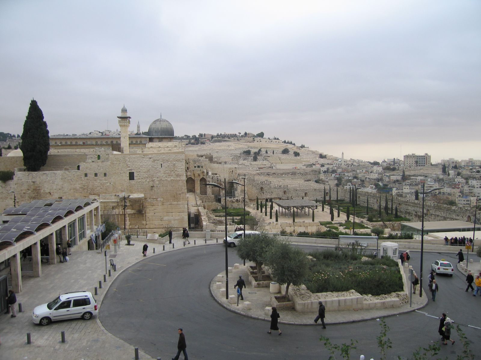 Entrance to the Western Wall, Jerusalem.